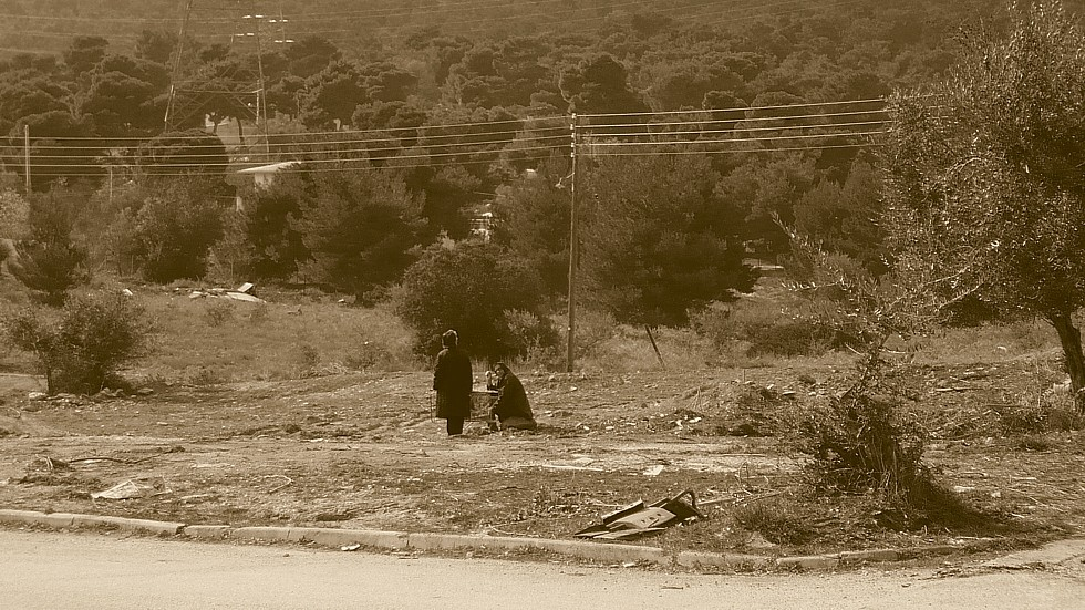 The picture depicts farms at Glika Nera.